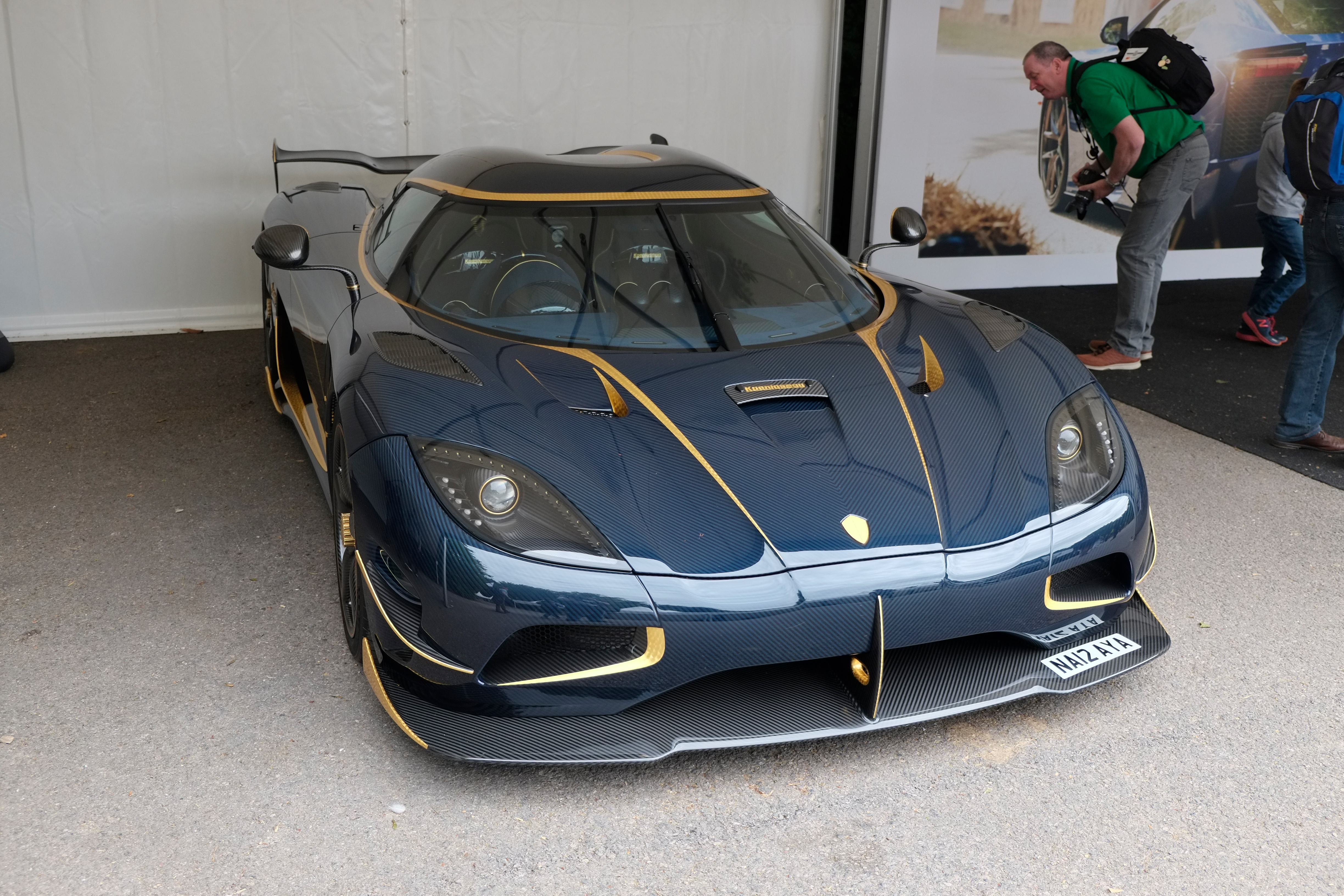 Agera RS Naraya